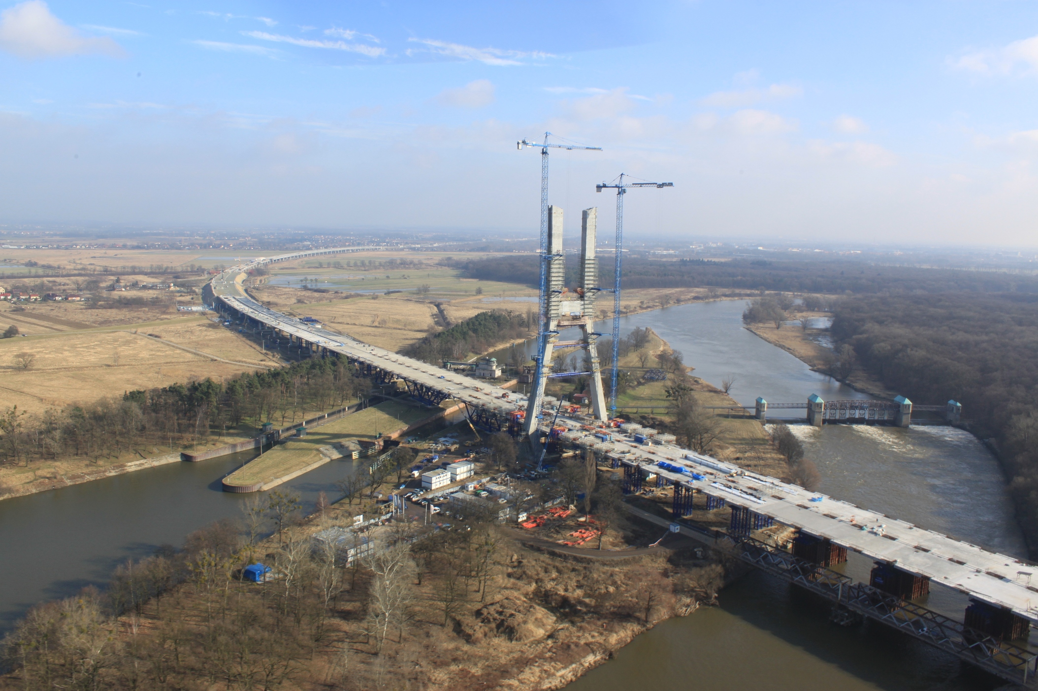 Rędziński Bridge in A8 motorway - air view